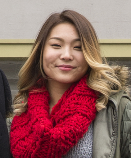 Chloe Kim, in 2017.